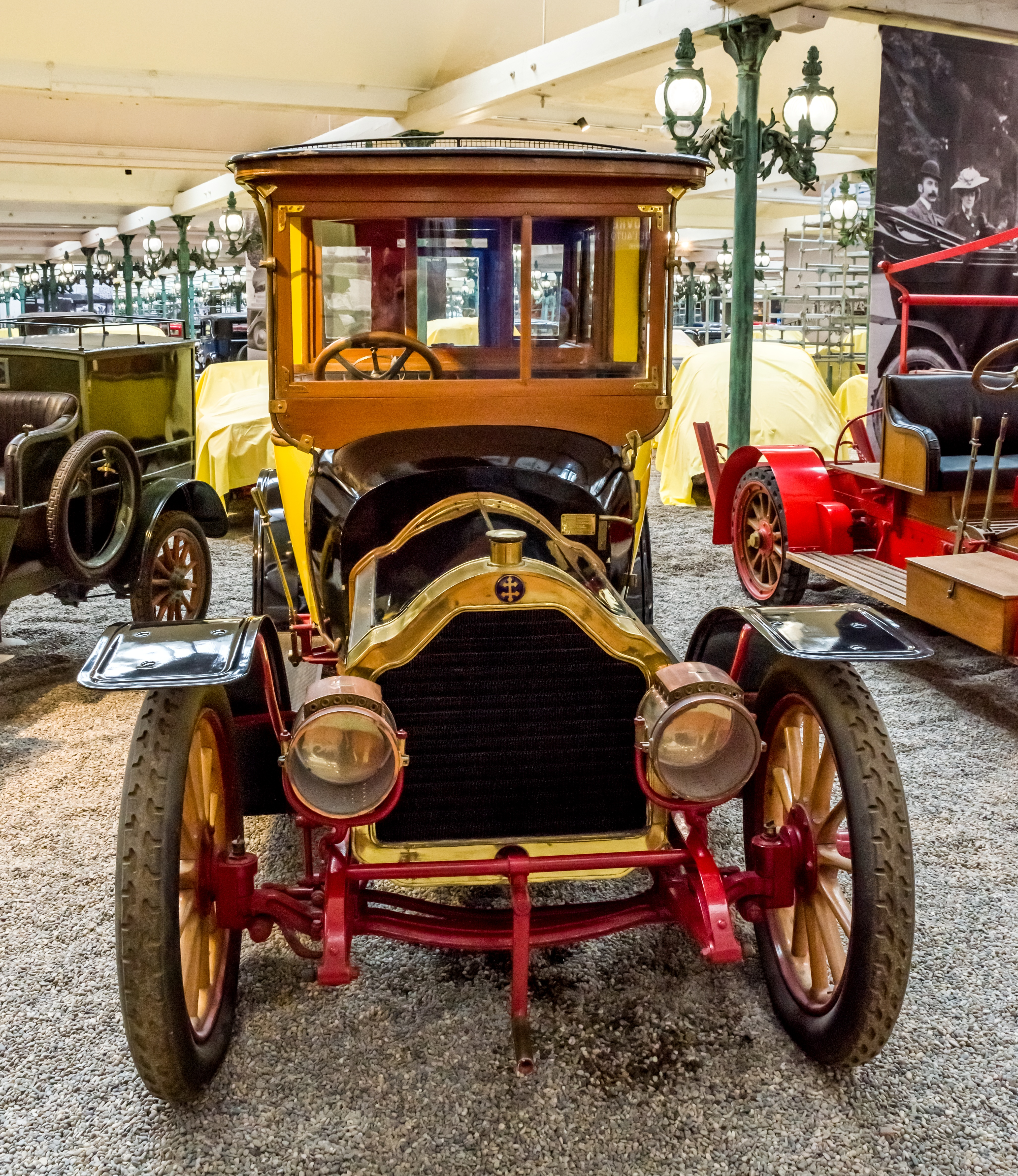 pictures from the Cité de l’Automobile – Musée National – Collection Schlump in Mulhouse, France ptictures from the 10. may 2018